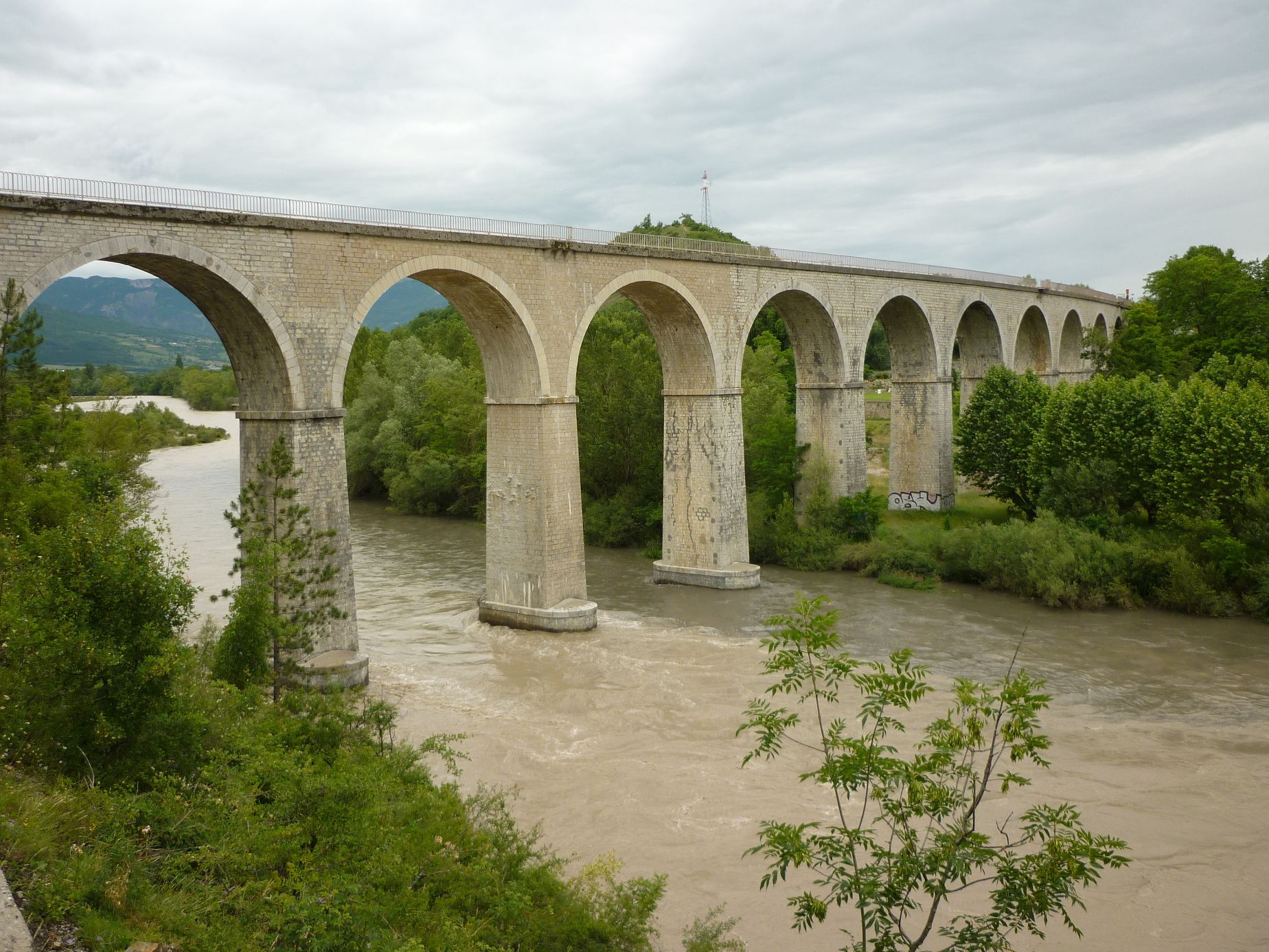 Railway bridge over river Buech near Sisteron